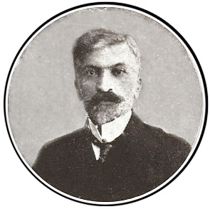 Haroutyoun Shahrigian